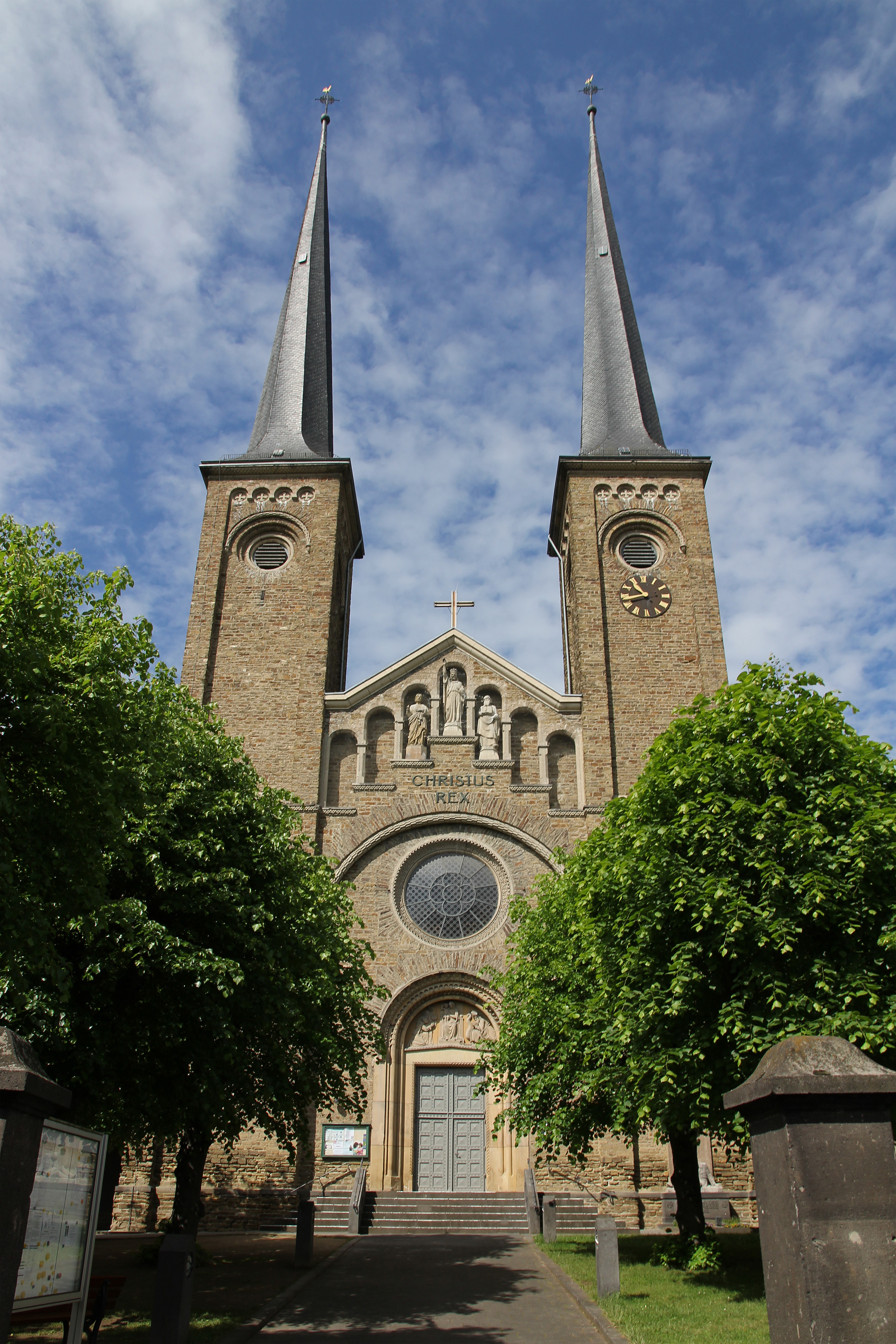 St. Servatius church in Koblenz